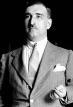 Textile industrialist Gaetano Marzotto (1894–1972) of Valdagno. Time and place: Unknown. Guess 1950.